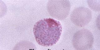 This Giemsa stained slide reveals a Plasmodium vivax gametocyte. The male (microgametocytes) and female (macrogametocytes), are ingested by an Anopheles mosquito during its blood meal. Known as the sporogonic cycle, while in the mosquito's stomach, the microgametes penetrate the macrogametes generating zygotes.